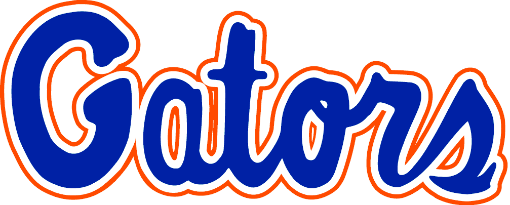 Script "Gators" logo that appears on Florida Gators football helmets